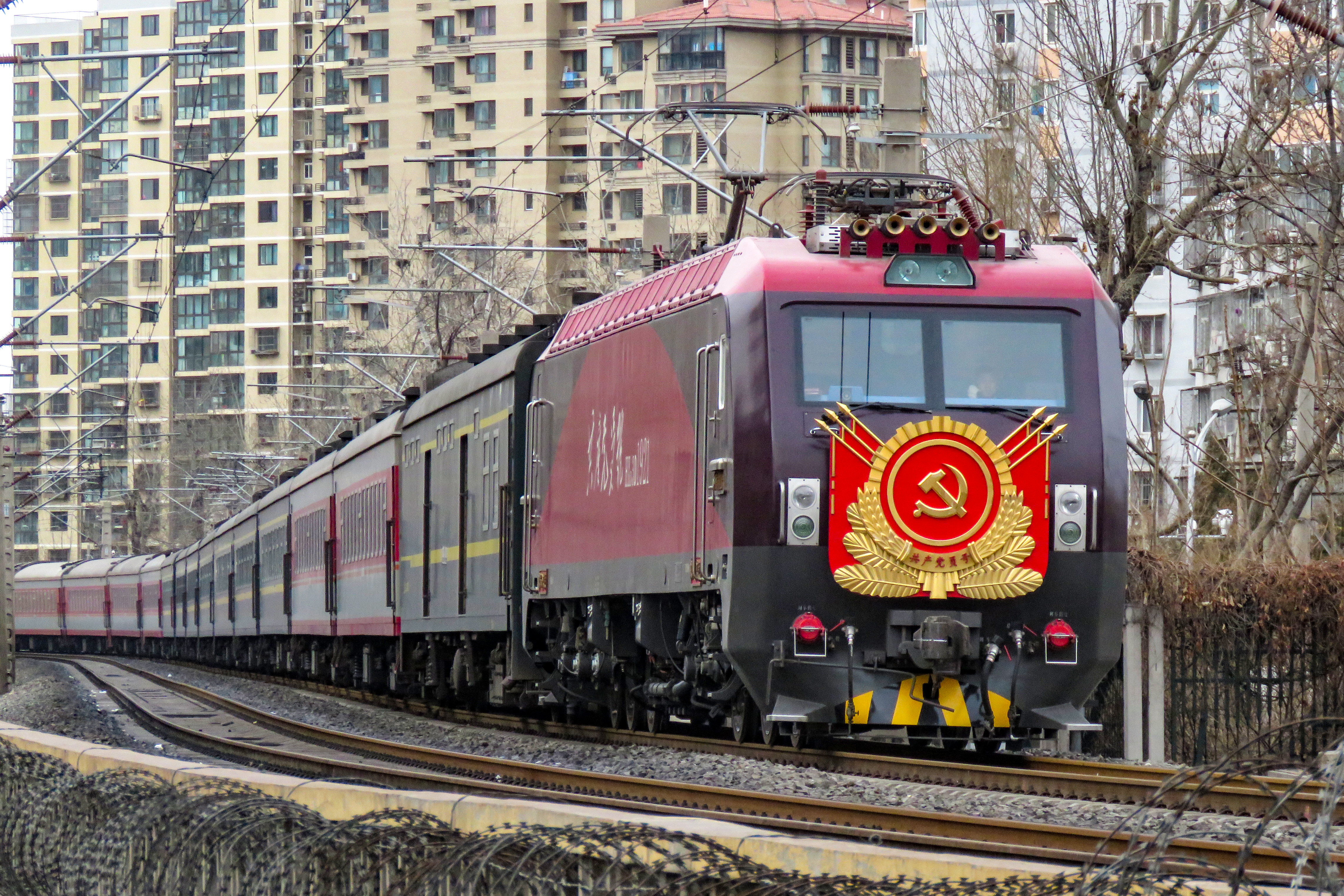 K28 from Pyongyang (two Chinese carriages attached). The locomotive from Shenyang to Beijing was switched to HXD3D-1921 (every two days) last month.